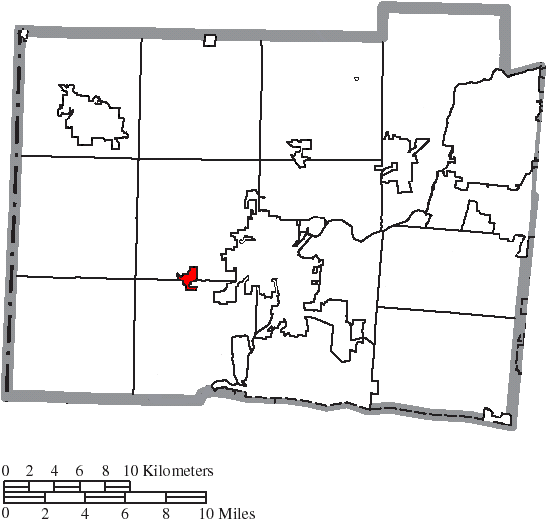 Map of the municipal and township boundaries of Butler County, Ohio, United States, as of the 2000 census, with the location of the village of Millville highlighted. Township borders are shown only in unincorporated areas in order to differentiate incorporated and unincorporated areas more clearly.